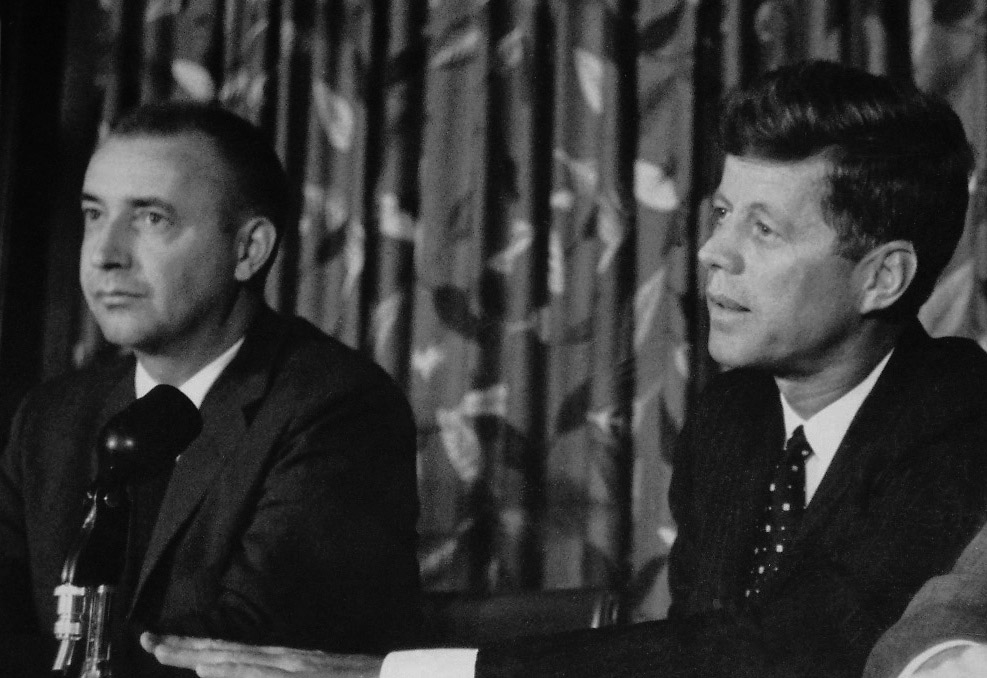 Richard VanderVeen sitting next to John F. Kennedy.